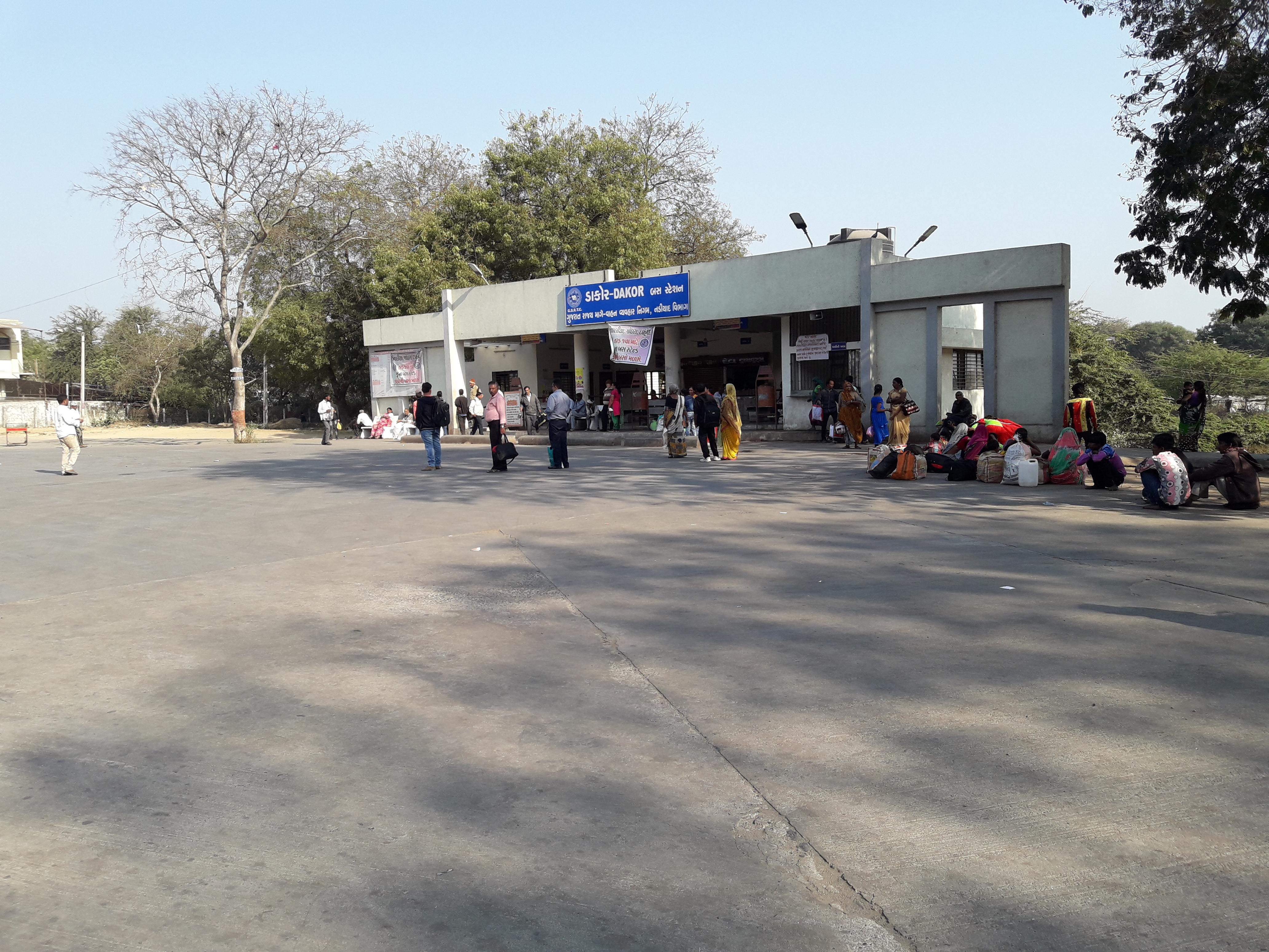 GSRTC Bus Station Dakor, Gujarat, India.